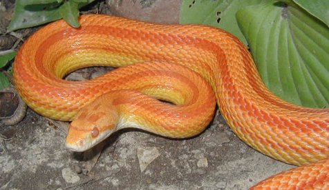 Amelanistic Stripe Corn Snake